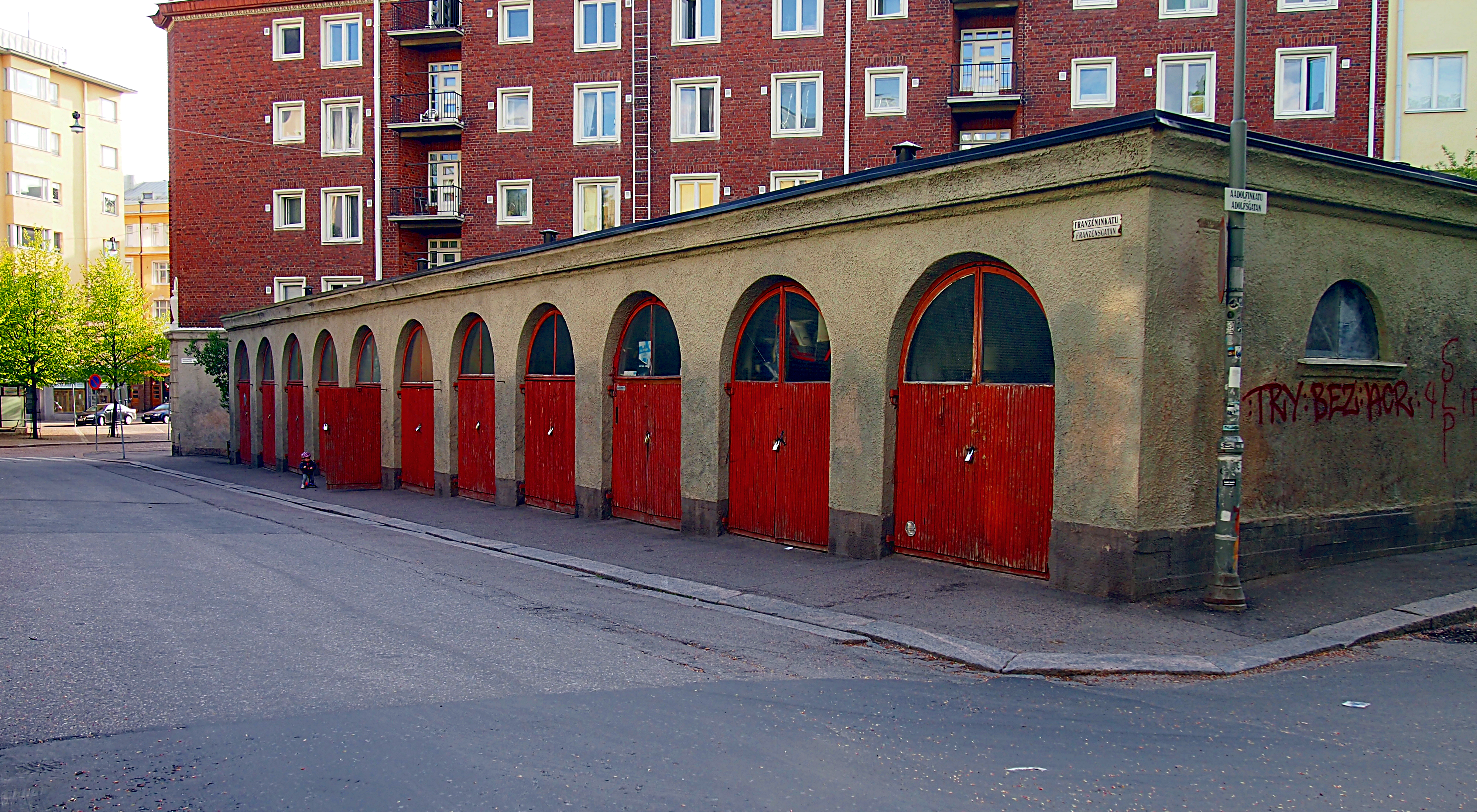 The street Franzéninkatu, Kallio, Helsinki, Finland